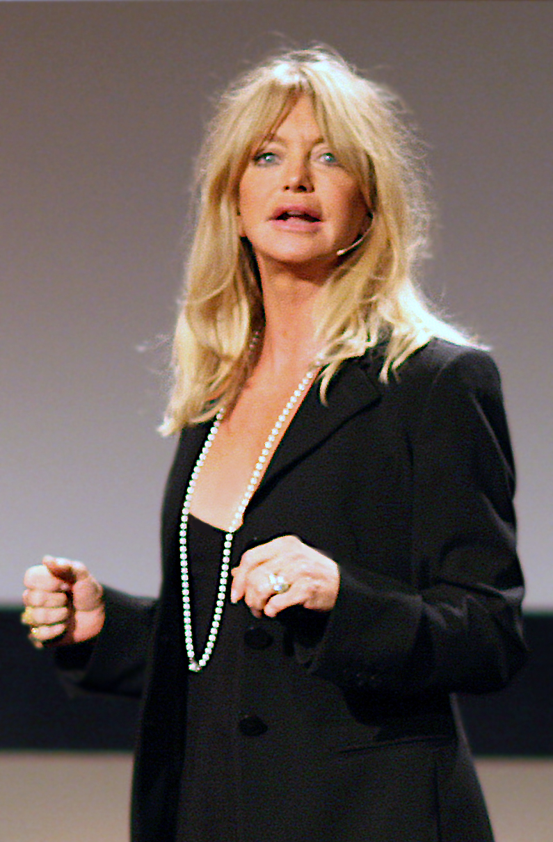 Goldie Hawn at TED 2008.